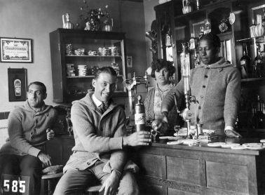 Olympic Games, 1928 Amsterdam. José Leandro Andrade, football player from Uruguay, behind the bar serving a glass of Bols geneva to his teammates in a café in Amsterdam.